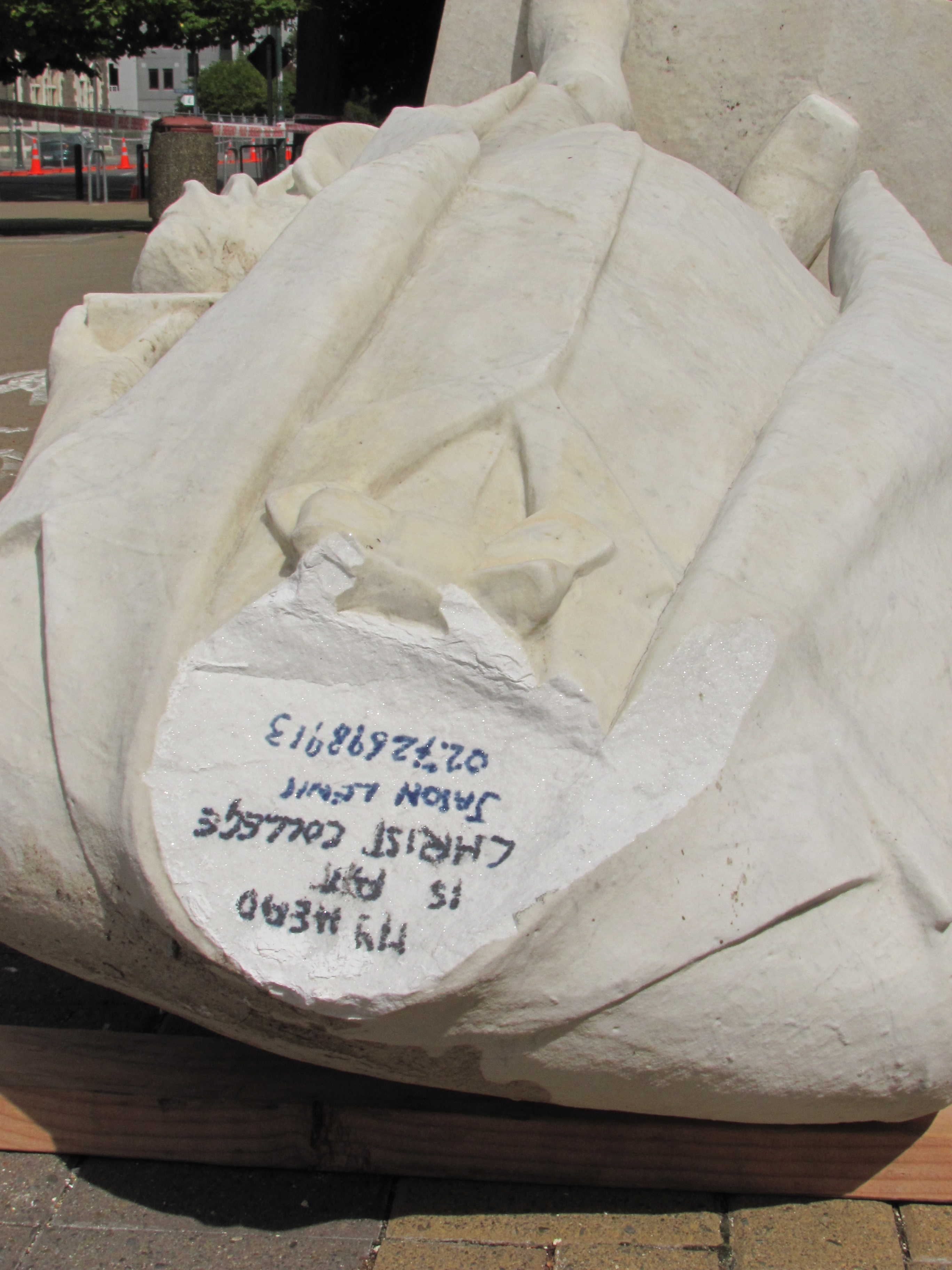 A few days after the February earthquake. "My Head is at Christ College"